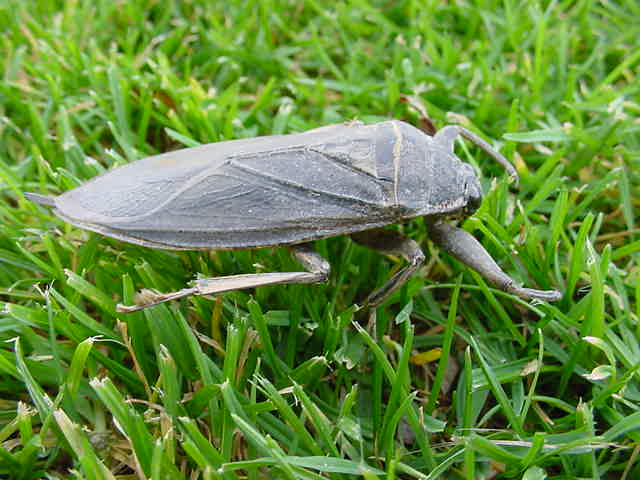 Giant water bug (Lethocerus americanus) in Montana.